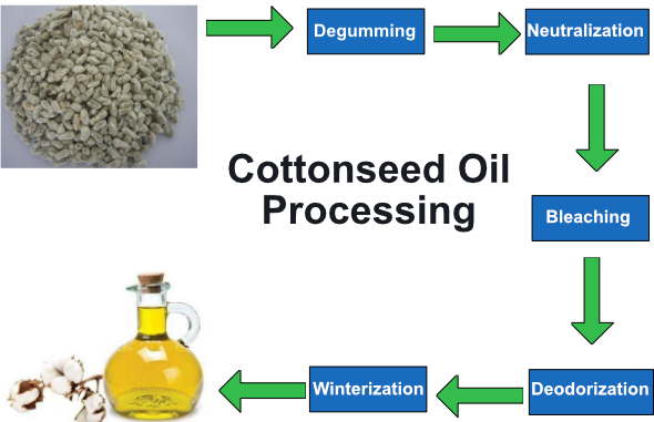 Shows the processes involved in the production of cottonseed oil for consumption from raw product to refined oil.